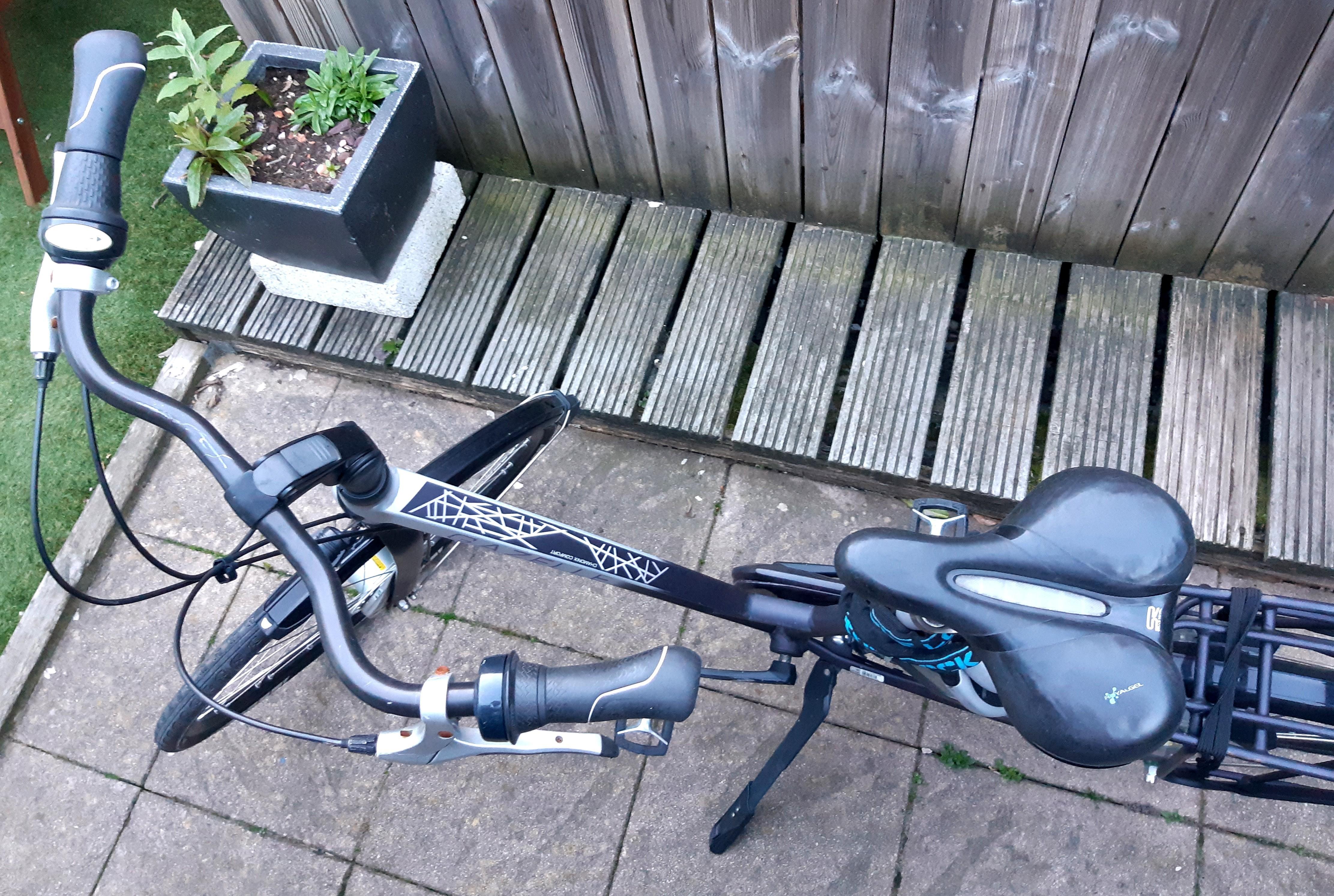 Dutch Gazelle bicycle viewed from above, particularly the saddle and handlebars